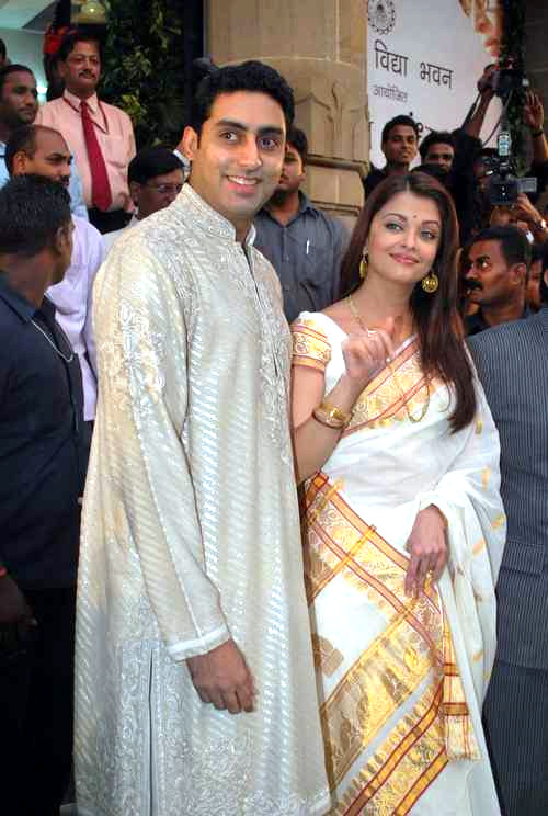 Abhishek and Aishwarya Rai Bachchan unveil the Madhushala book in Bengal